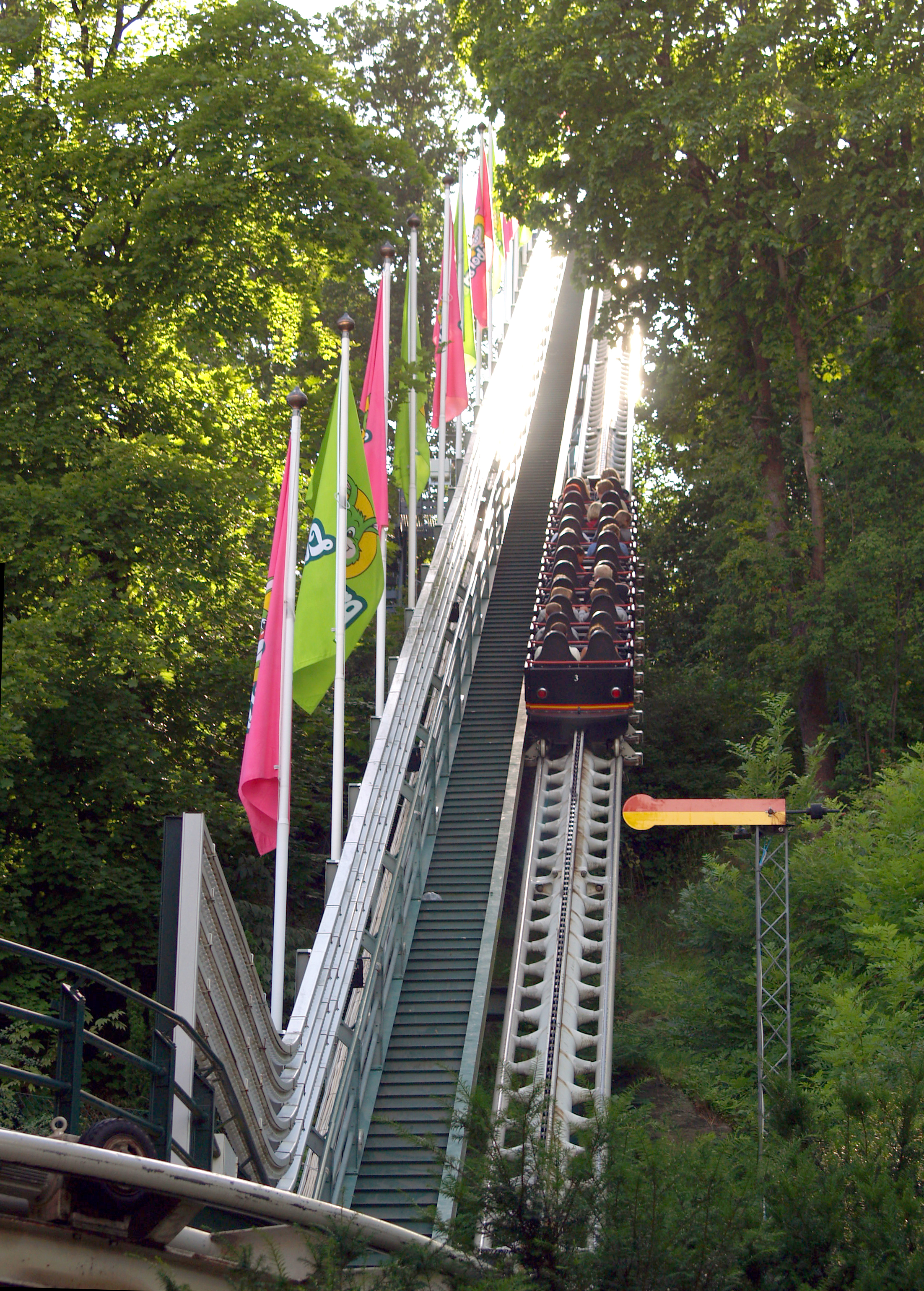 Lisebergbanan at Liseberg in Gothenburg, Sweden.